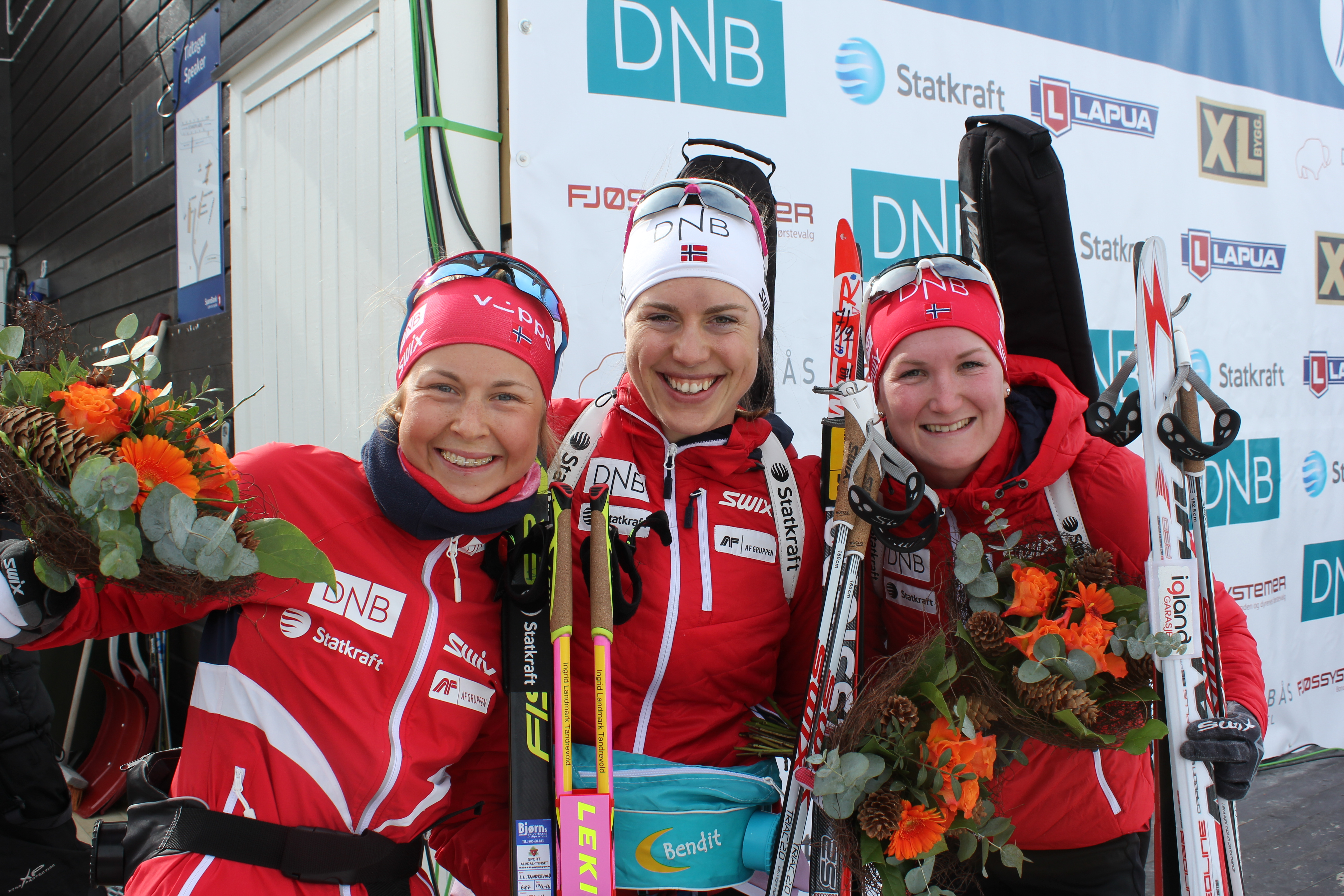 Podium at the 2016 Norwegian biathlon championship (sprint, women senior) - left to right: Ingrid Landmark Tandrevold, Synnøve Solemdal and Marte Olsbu.